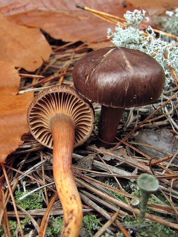 Fruit bodies of the fungus Chroogomphus vinicolor (Peck) O.K. Mill. Specimens photographed in Oneida Co., New York, USA.